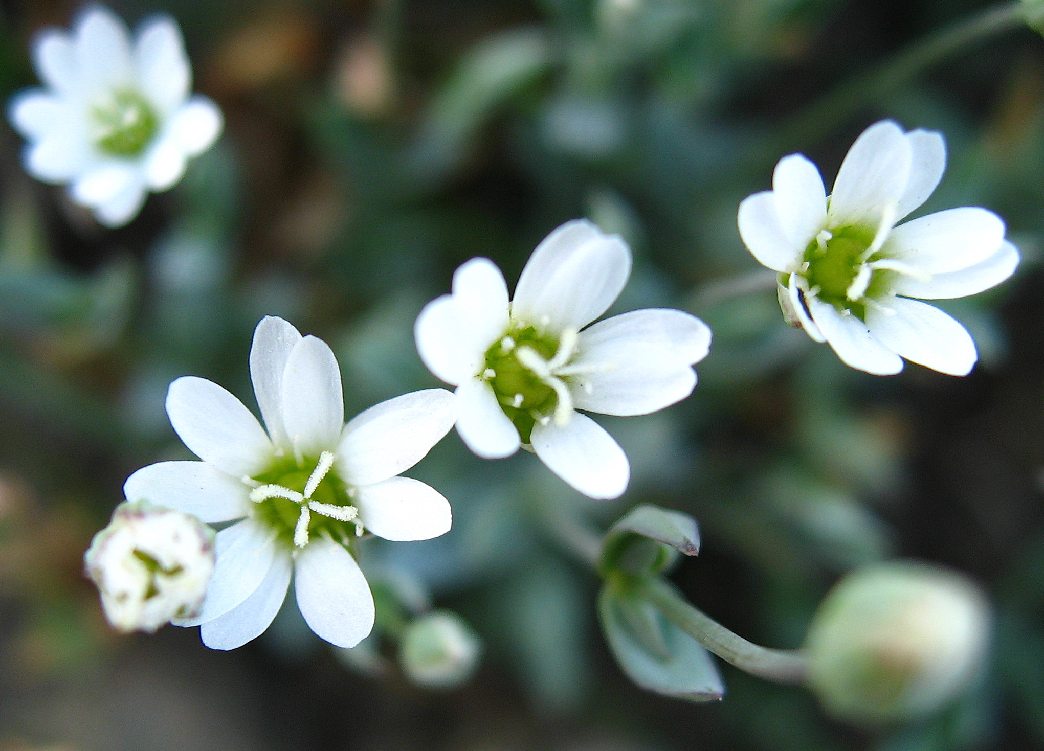 Long-stalk starwort (Stellaria longipes) photographed near eastern beach in Kangersuatsiaq, Greenland.